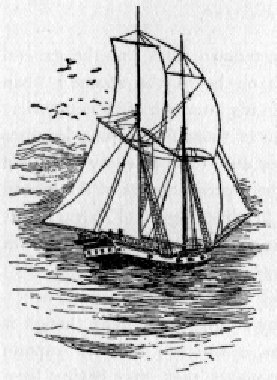 The Gaspee, by L. E. Bridgman, taken from When We Destroyed the Gaspee by James Otis-Kaler, 1895